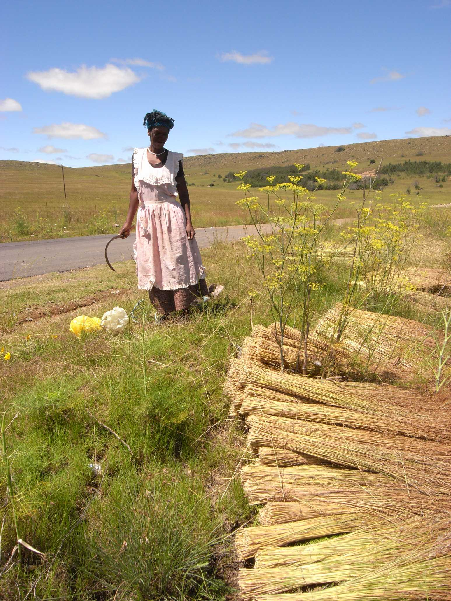 Amathole Region, work in grasslands (Amahlathi Municipality, Eastern Cape, South Africa)